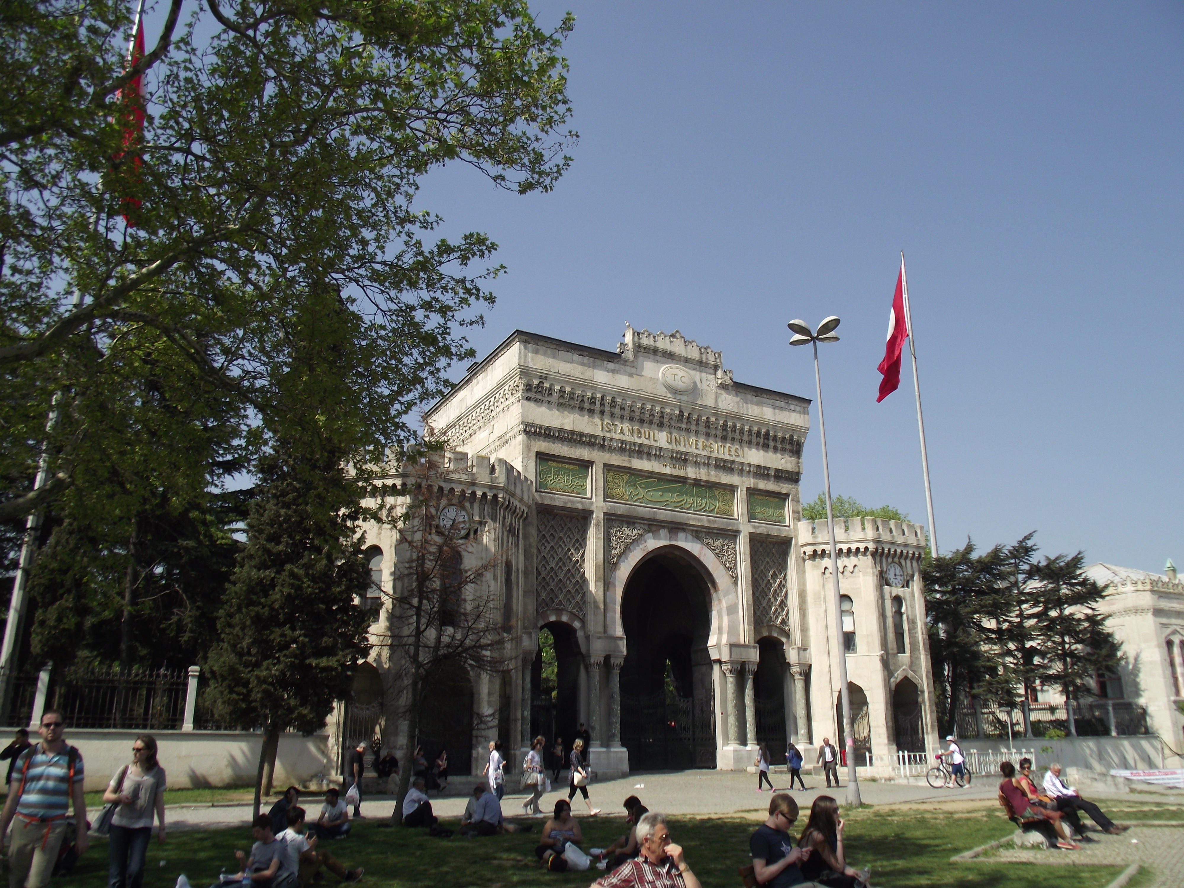 Istanbul University